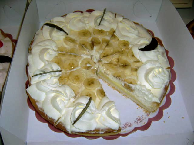 Nice banana cake